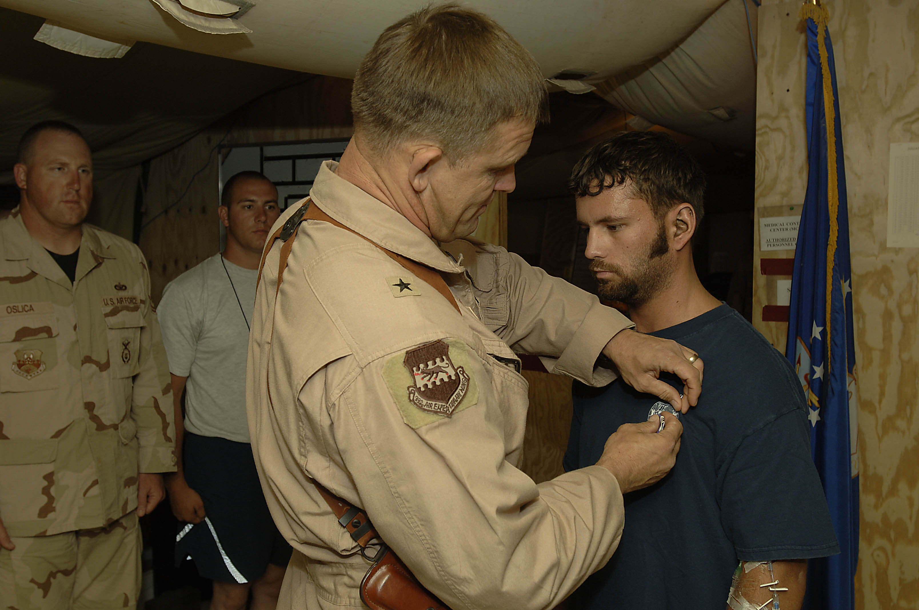 Brig. Gen. Frank Gorenc awards a soldier injured in the line of duty a Purple Heart